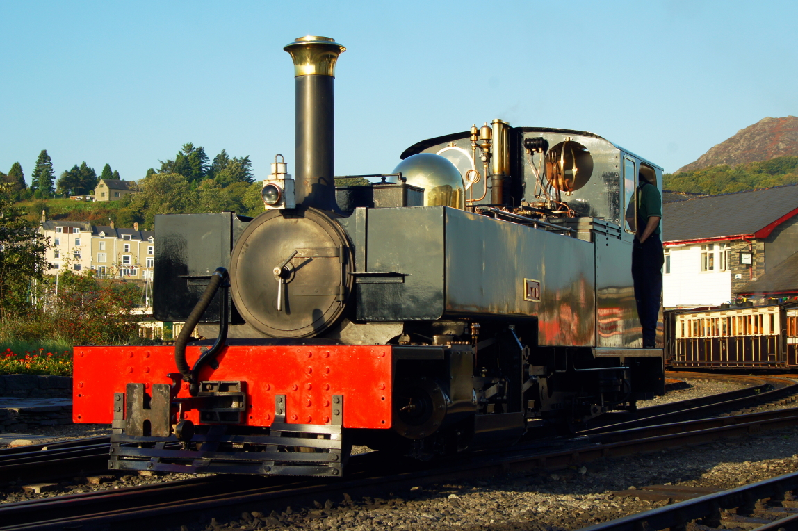 Newly built L&B Manning Warldle Lyd at the Ffestiniog Railway's Porthmadog harbour station.